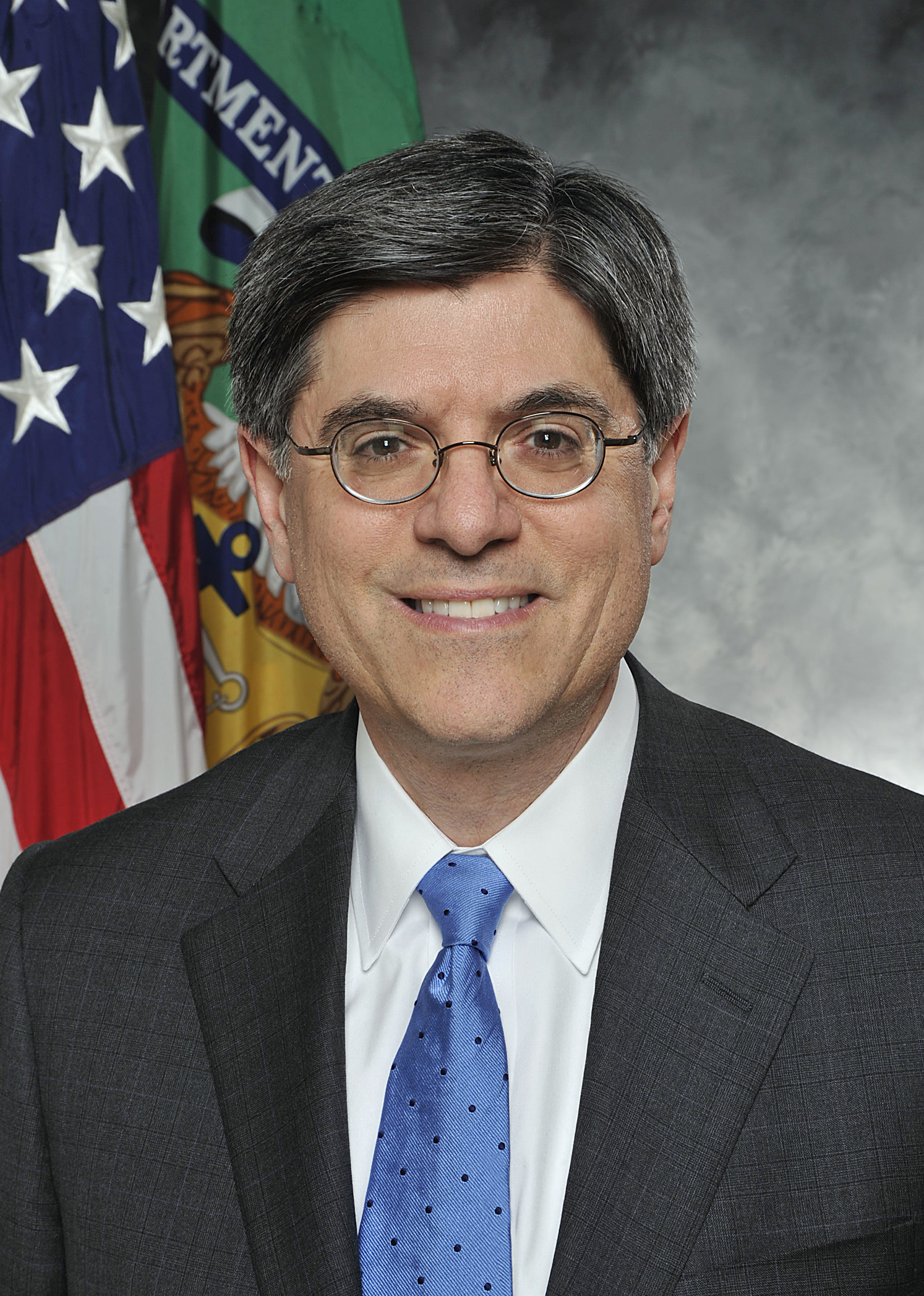 Official portrait of United States Secretary of the Treasury Jack Lew